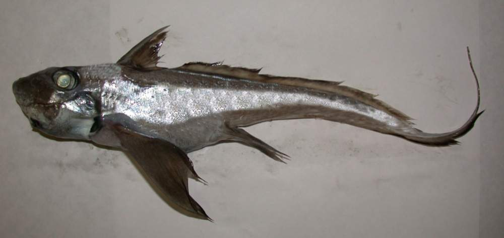 Chimaera monstrosa photographed by Pierluigi Angioi.